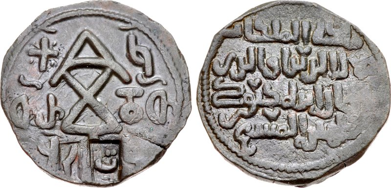 GEORGIA, Kingdom. T’amar. Queen Regnant, 1184-1213. Æ Fals (26mm, 6.95 g, 3h). Tiflis mint. Dated Year 420 of the Paschal cycle (AD 1200). Large symbol representing military standard or upright crossbow; acronym of “T’amar – Davit’” to left and right’ Pascal cycle date around; c/ms: uncertain letter and “ta” in Arabic, each in incuse on either side of standar base / Name and titles of T’amar in Arabic in four lines. Pakhamov pl. VIII, 132-5; Kapanadze 64 (illustrated coin with c/ms); Lang 11c (illustrated coin with c/ms). Good VF, brown surfaces. A well struck example.